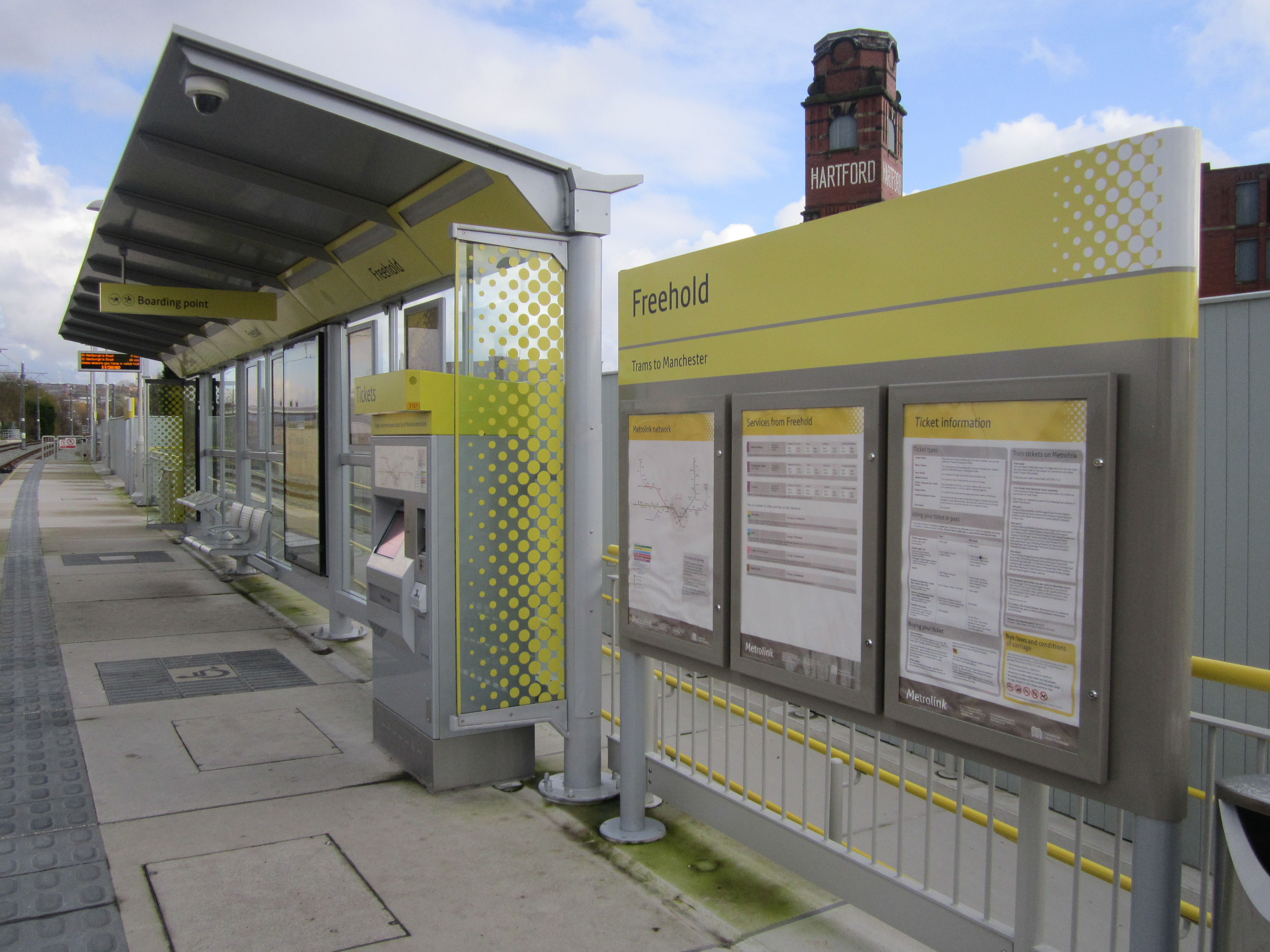 Photo taken at Freehold Metrolink station, Chadderton, Greater Manchester, England.